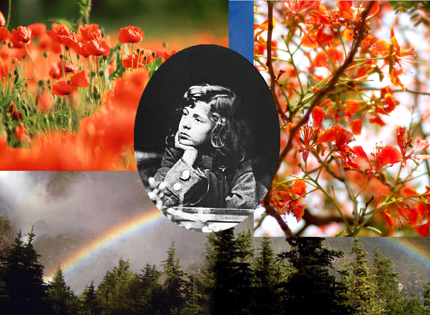 Image of thought experiment, Mary's room, in philisophy of mind